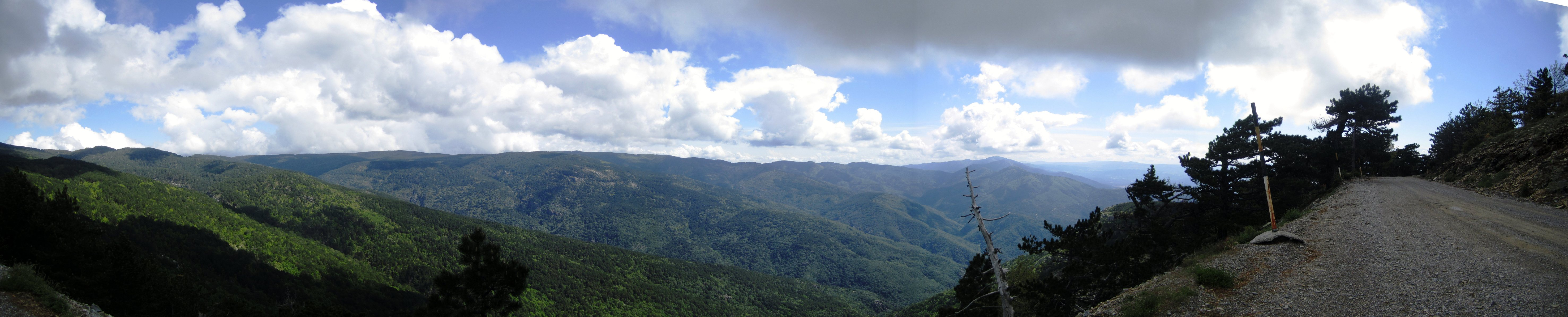 Panorama view Mount Ida